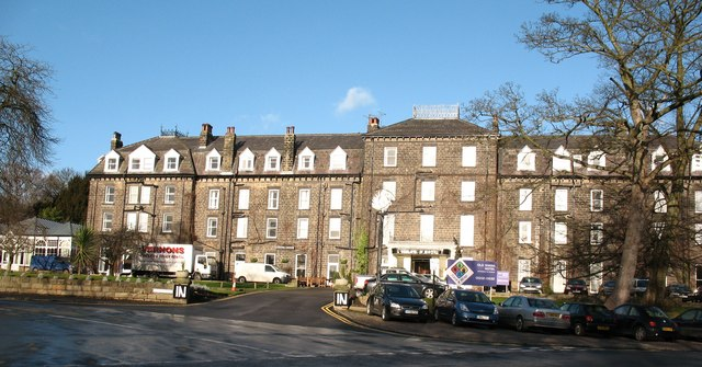 The Old Swan Hotel The Old Swan has always been one of Harrogate's most prestigious hotels and has welcomed many famous visitors. The hotel hit the headlines in December 1926 when Agatha Christie turned up here after going missing for over a week. She had been staying here under the name of Theresa Neele and was identified by a member of the hotel's band. The hotel interior was used for some scenes in the film 'Agatha' which starred Vanessa Redgrave and Dustin Hoffman.